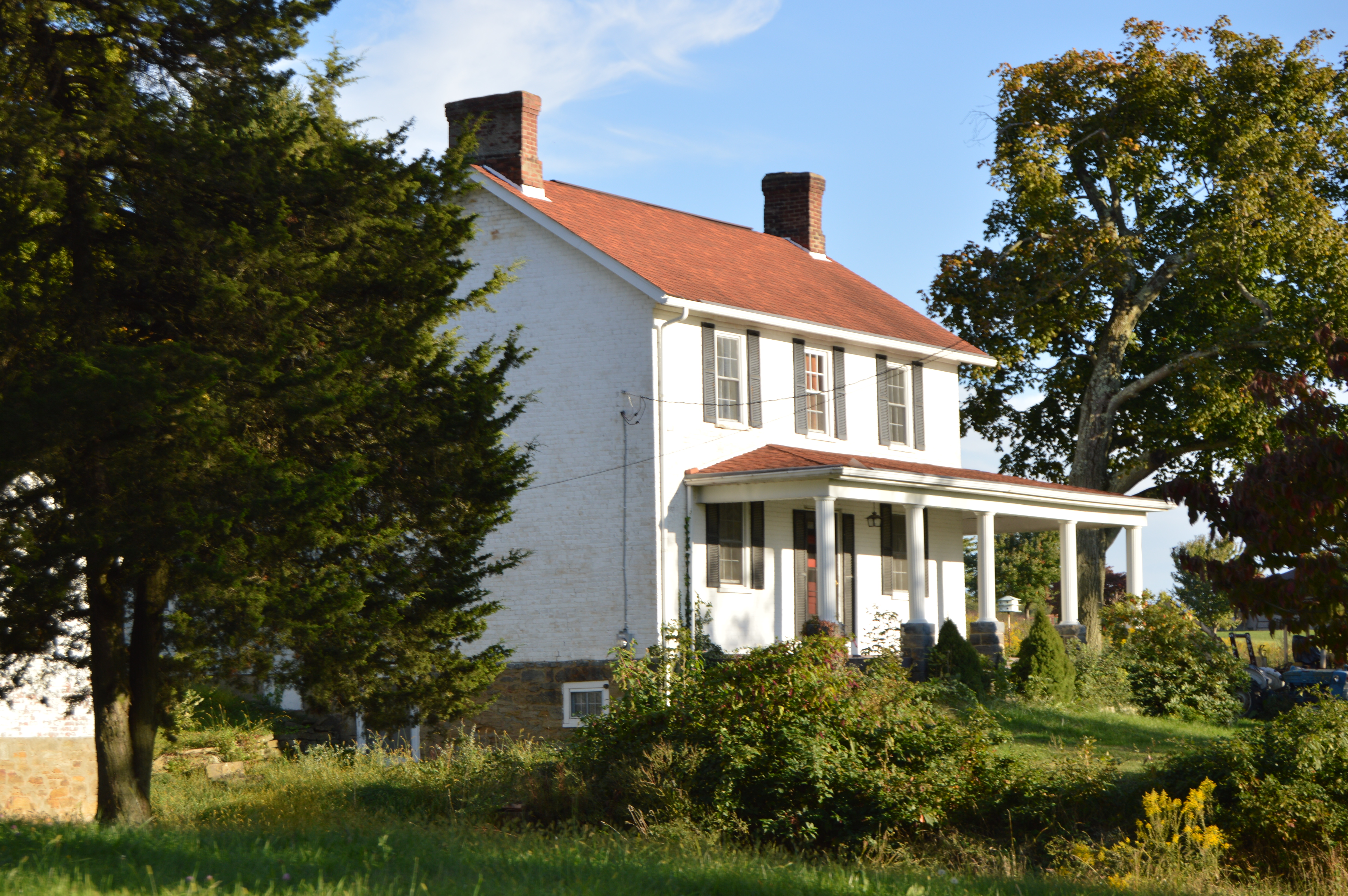 Historic brick-and-stone farmhouse on the eastern side of Stevenson Lane east of Carmichaels in Cumberland Township, Greene County, Pennsylvania, United States.